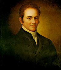 Portrait of Speaker of the United States House of Representatives Langdon Cheves of South Carolina